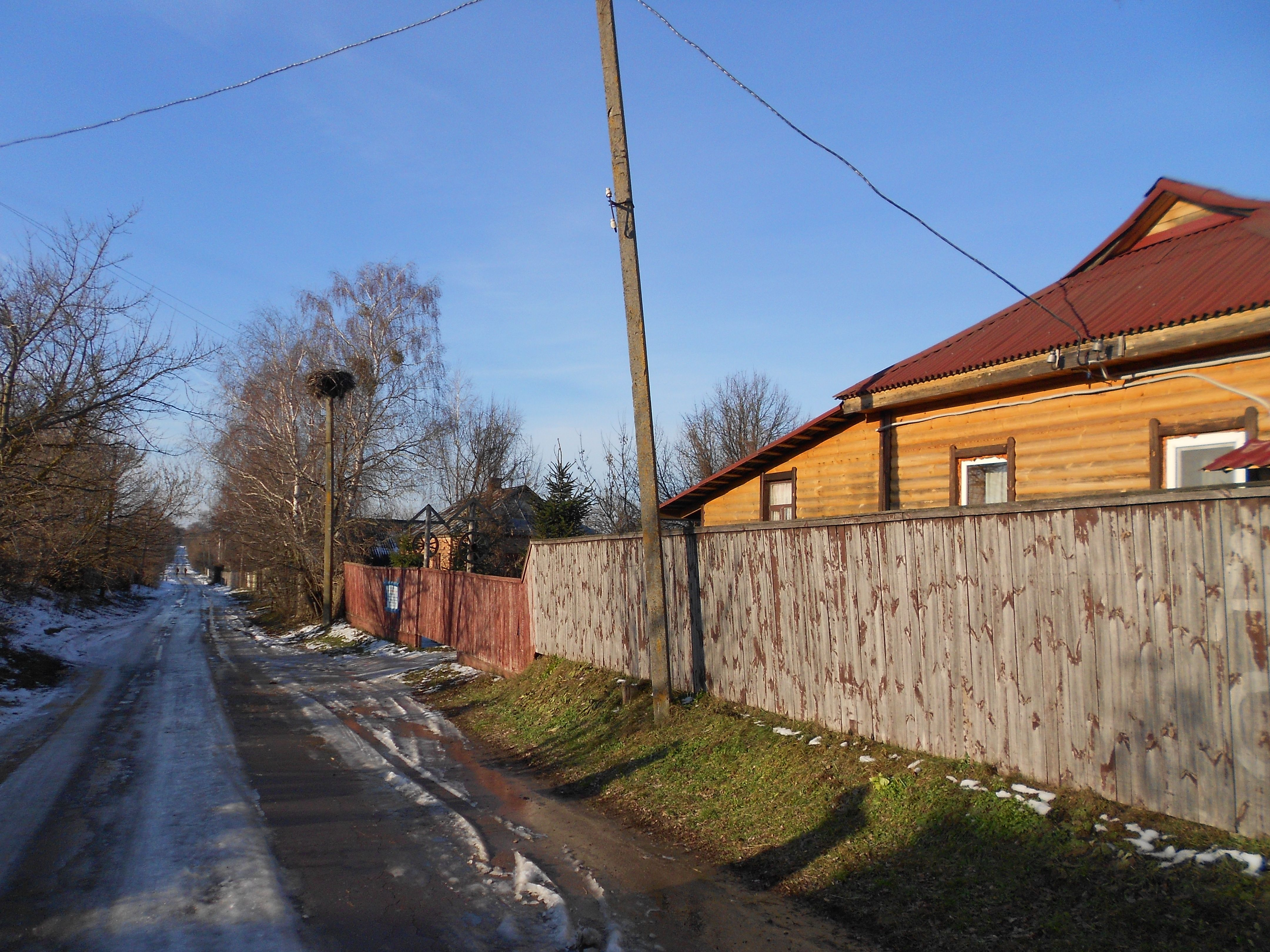 v. Andriyivka, Chernihiv Raion, Chernihiv Oblast, Ukraine Цю фотографію було зроблено в рамках Вікіекспедиції Чернігів — Михайло-Коцюбинське — Чернігів.